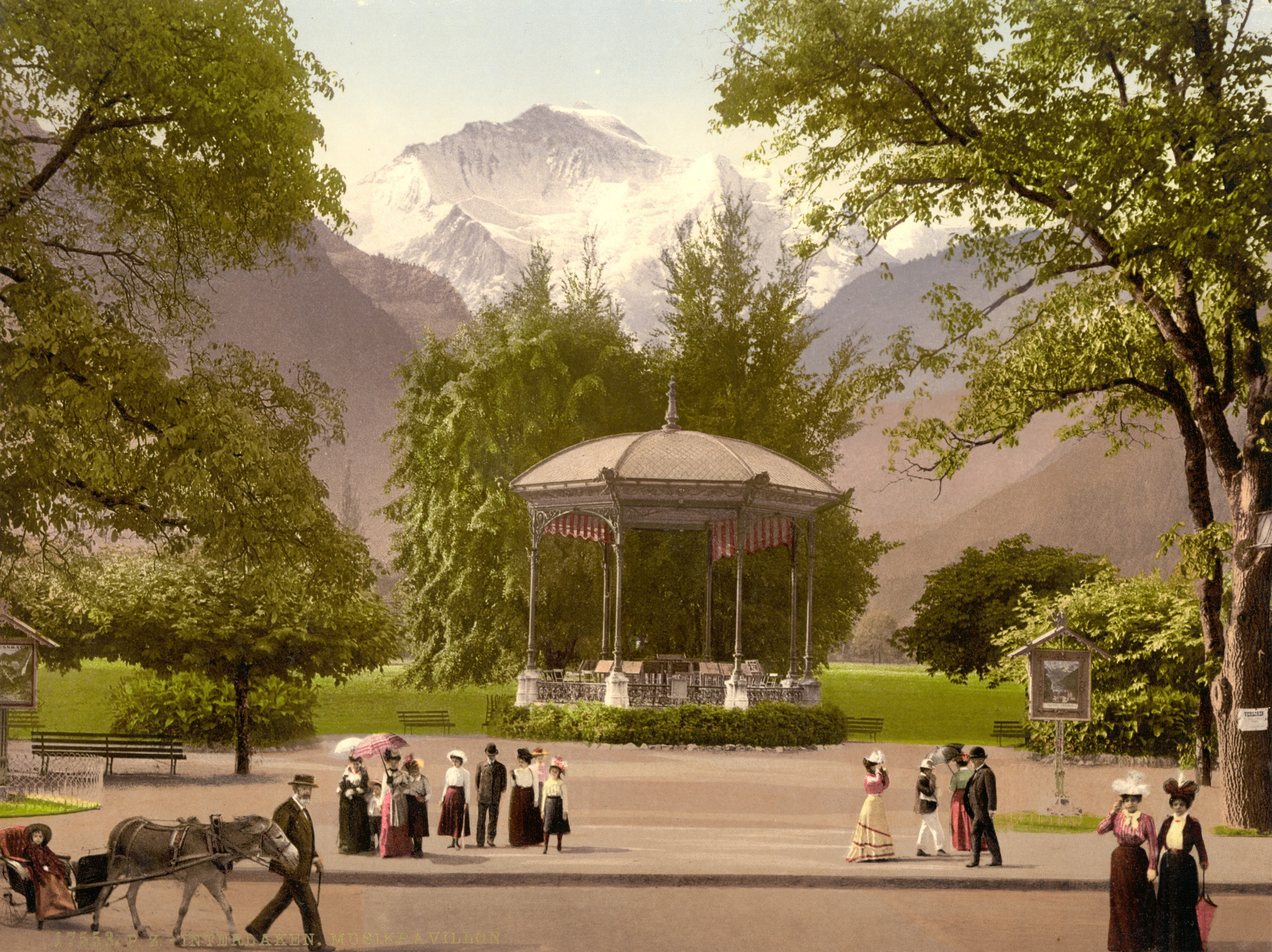 Forms part of: Views of Switzerland in the Photochrom print collection.; Title from the Detroit Publishing Co., Catalogue J-foreign section, Detroit, Mich. : Detroit Publishing Company, 1905.; Print no. "17553".